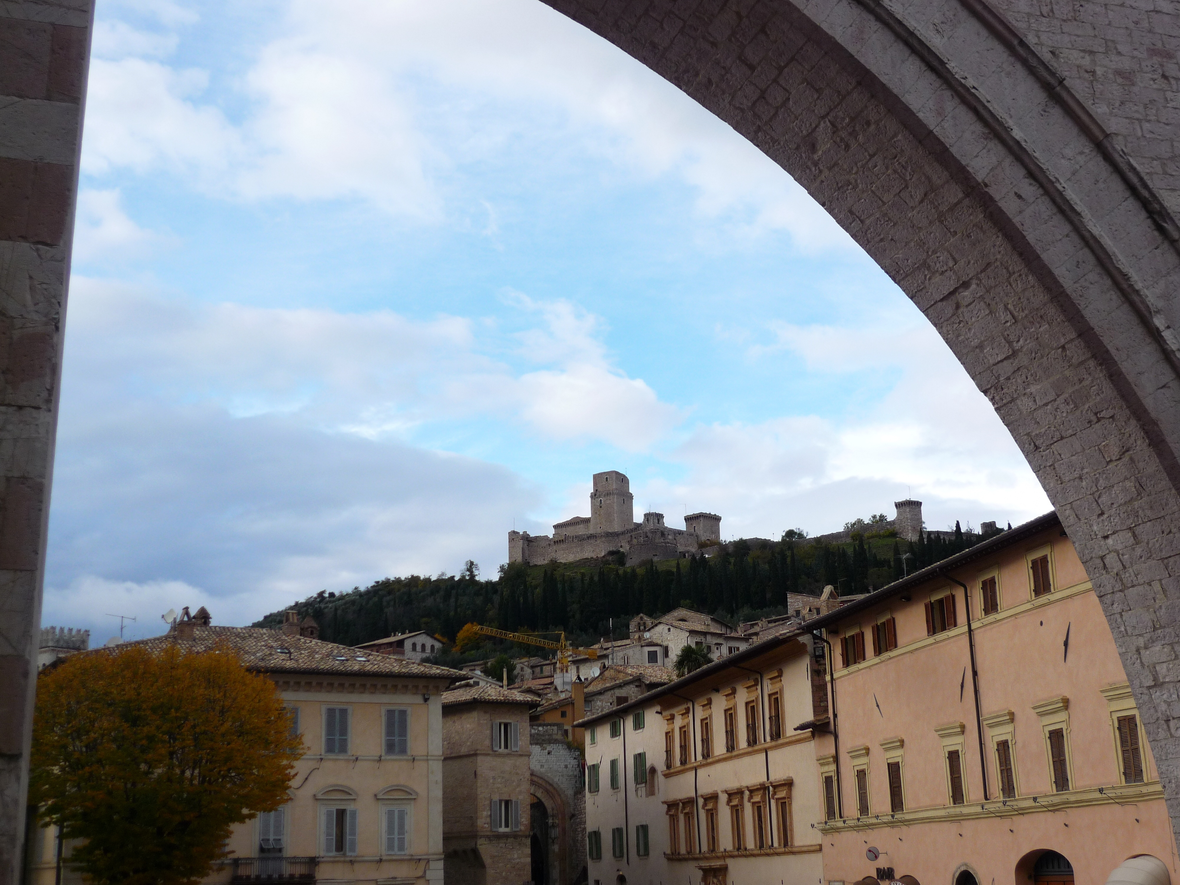 'Rocca Maggiore' castle, Assisi - Italy